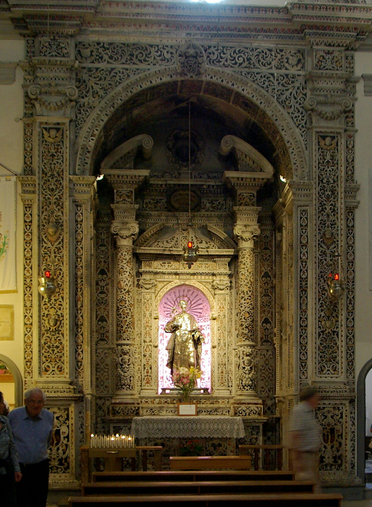 Italy, Sicily, Trapani, Basilica-sanctuary of Maria Santissima Annunziata, statue of Albert of Trapani